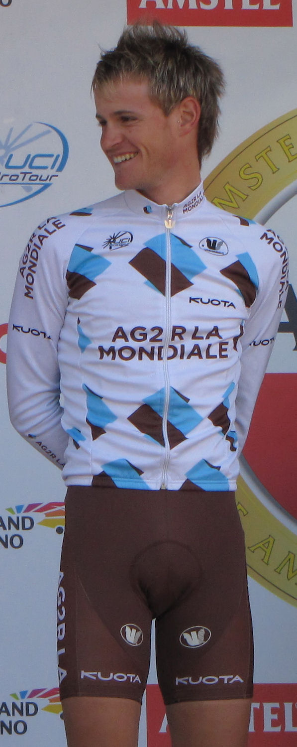 Maxime Bouet